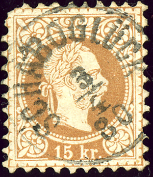 Austrian KK stamp, cancelled SCHABOGLÜCK in 1880, a village in the district of Žatec (Bohemia)